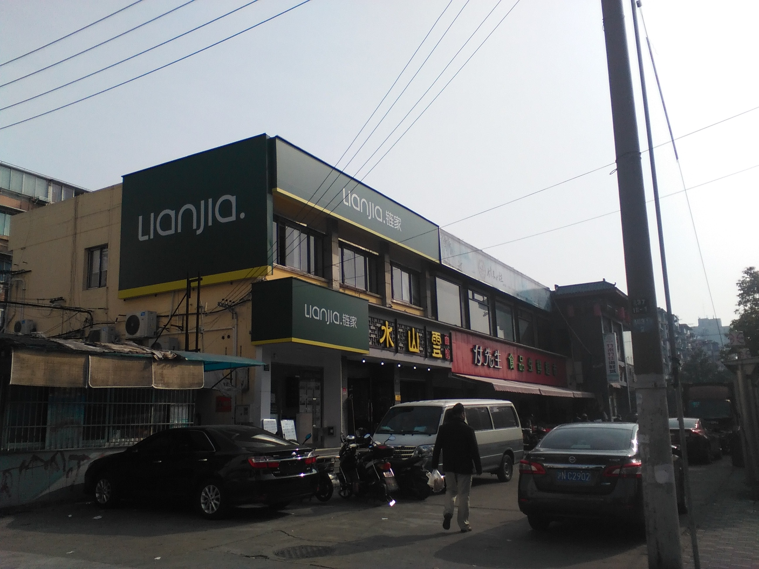 Lianjia (Homelink) Store in Yangpu District